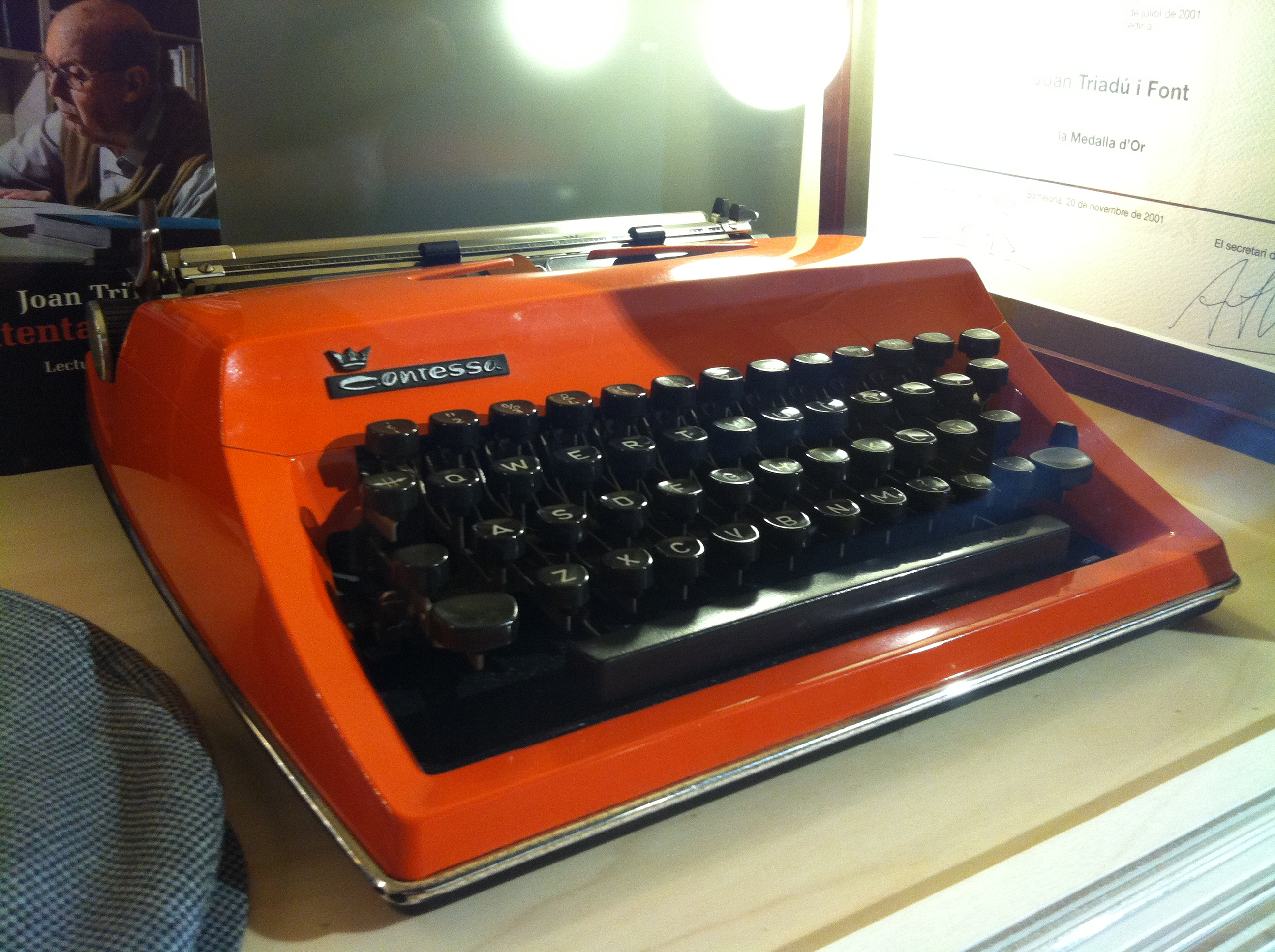 Llegir com viure Joan Triadú exhibit at Palau Robert in Barcelona (2013)